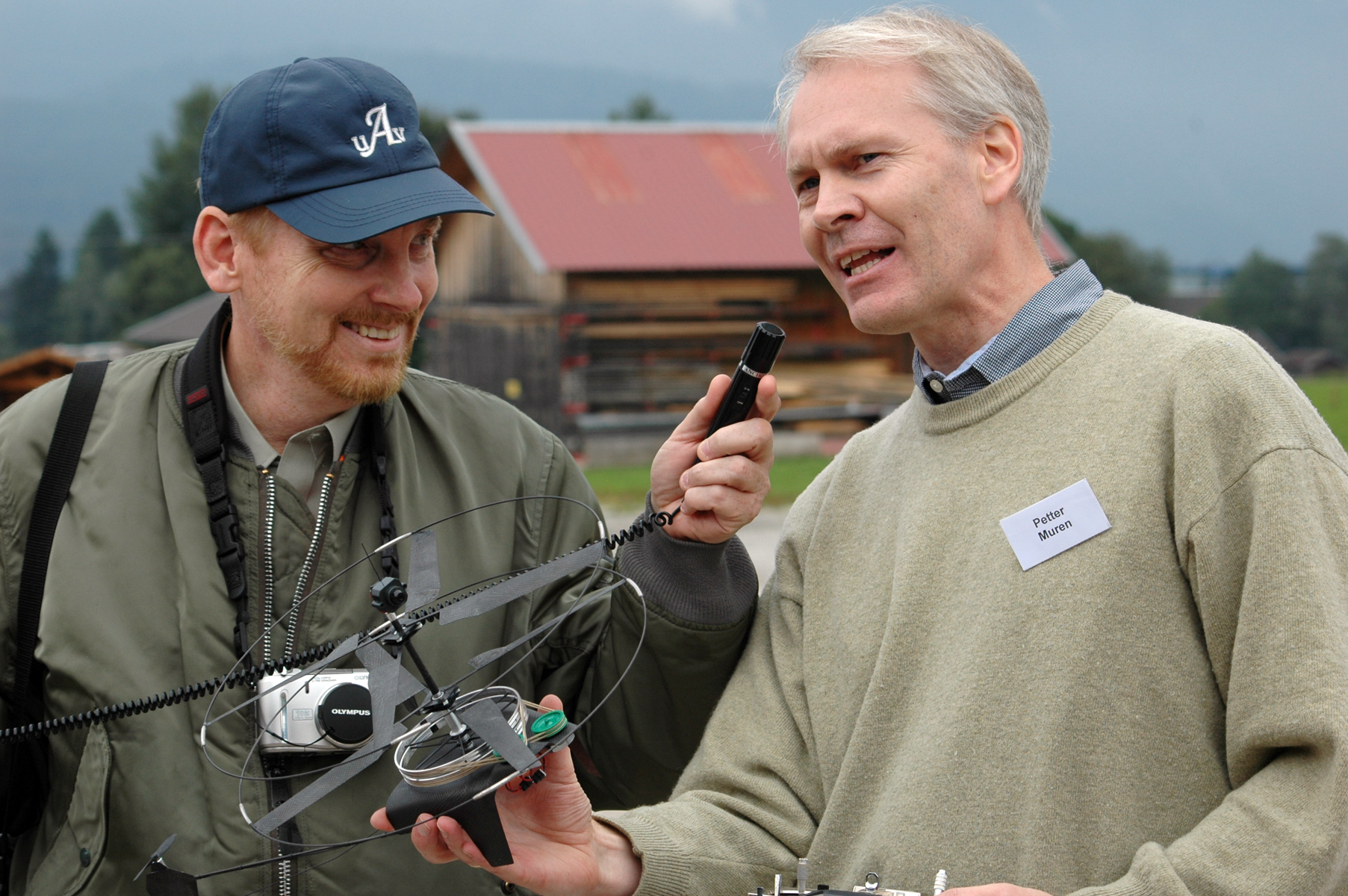 R.C. Michelson interview with Petter Muren (holding MAV) at MAV-05 in Garmisch Germany